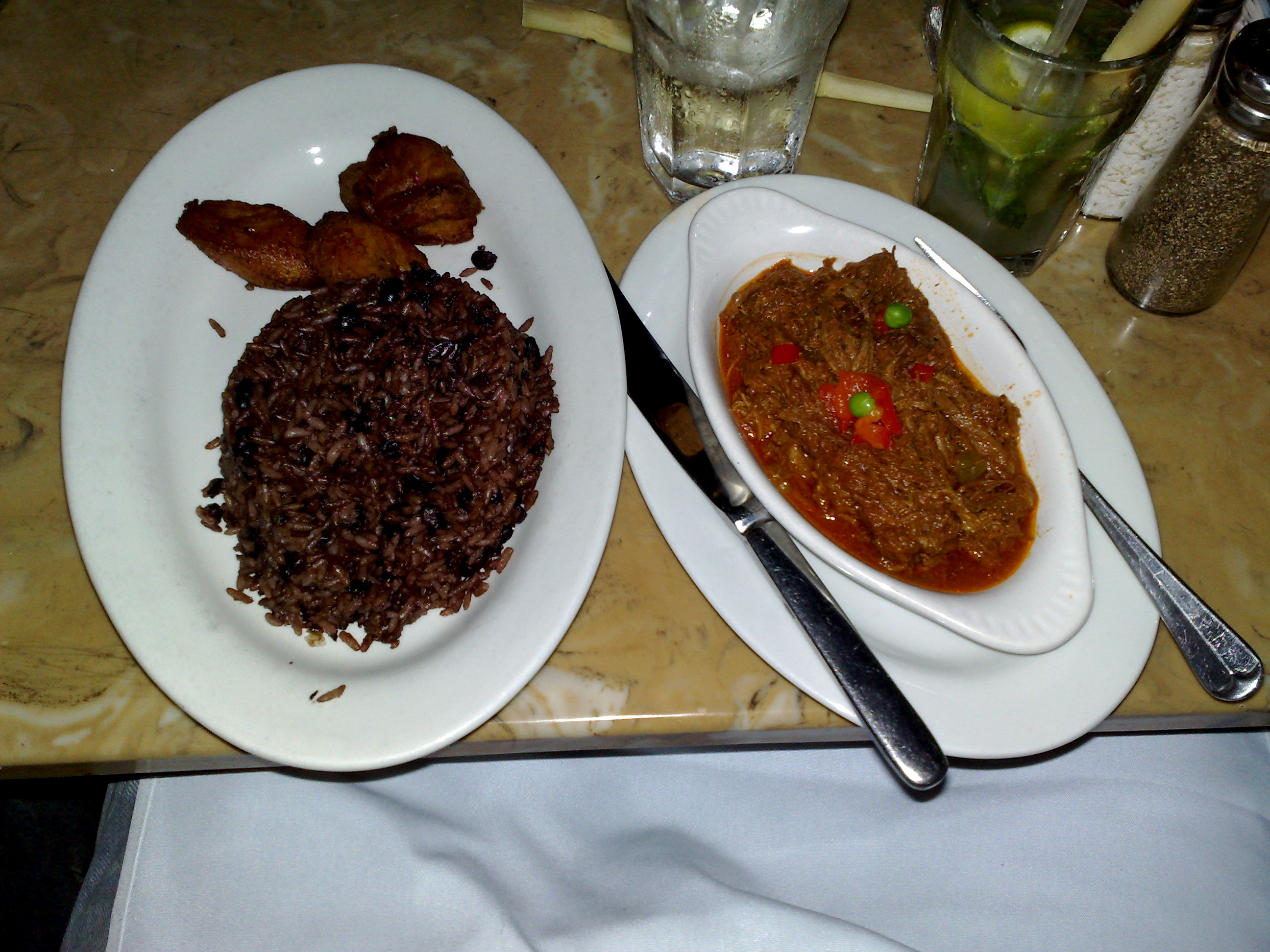 Left: Moros y cristianos (rice and black beans) with tostarones; Right: Vieja ropa